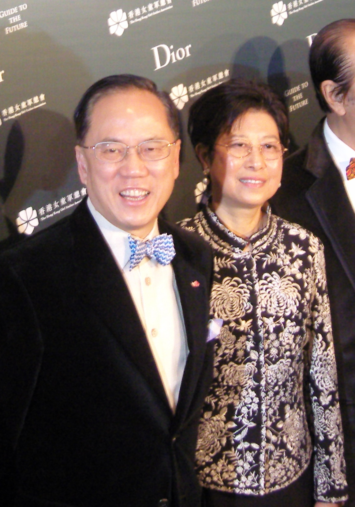 Donald Tsang and wife Selina Pao at the Hong Kong premiere of The Golden Compass at the Cyberport on the occasion of Hong Kong Girl Guides Association annual gala